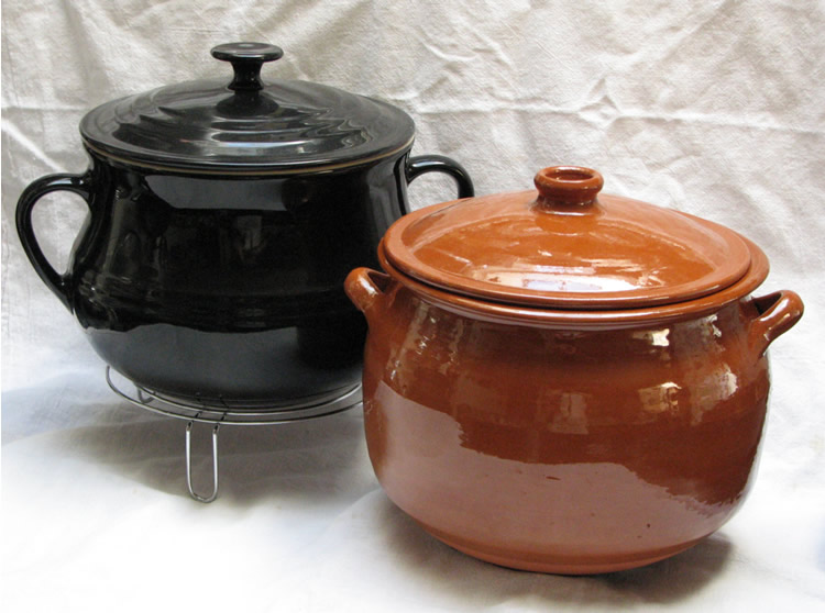 Soupière (le Creuset, French) and Olla (Spanish).